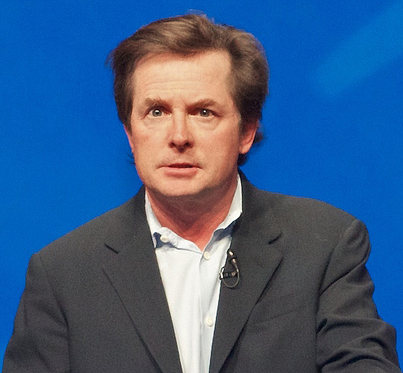 Michael J. Fox speaking at Lotusphere 2012